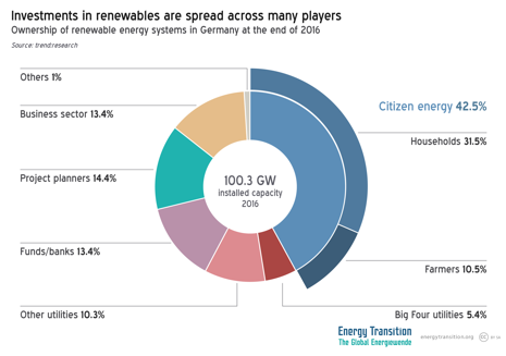 This pie chart describes who owns renewable energy systems in Germany in 2016. Citizen-owned projects make up 42.5% of investments in renewables.